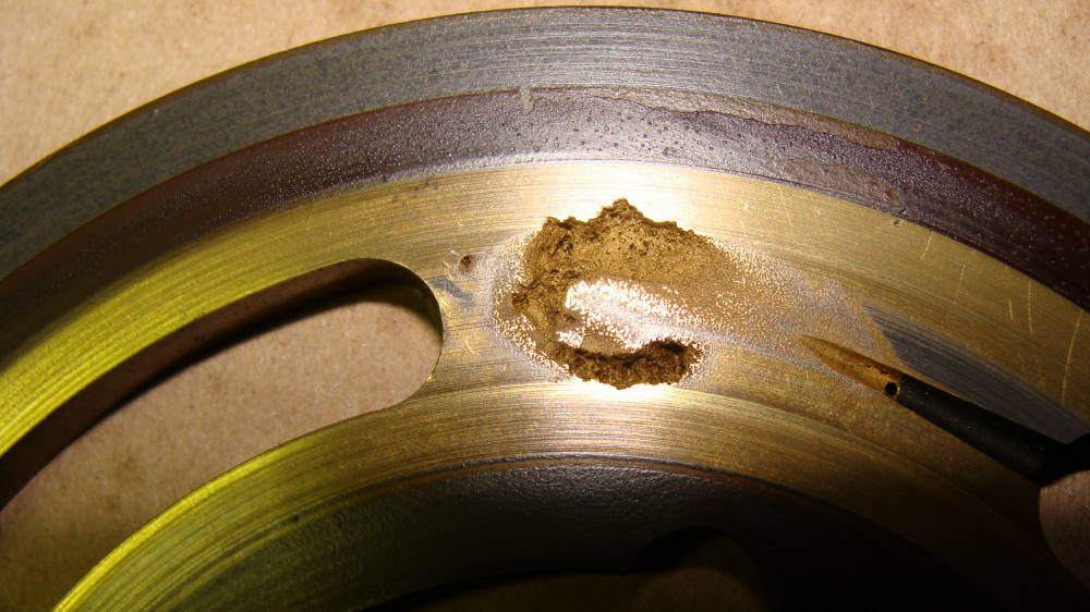 Cavitation damage on the valve plate for an axial piston pump. This typical "horse shoe" form appears in the zone between suction and pressure side. Reason: Excessive pressure losses in the suction-line/inlet section of the pump, or entrained air during intake.